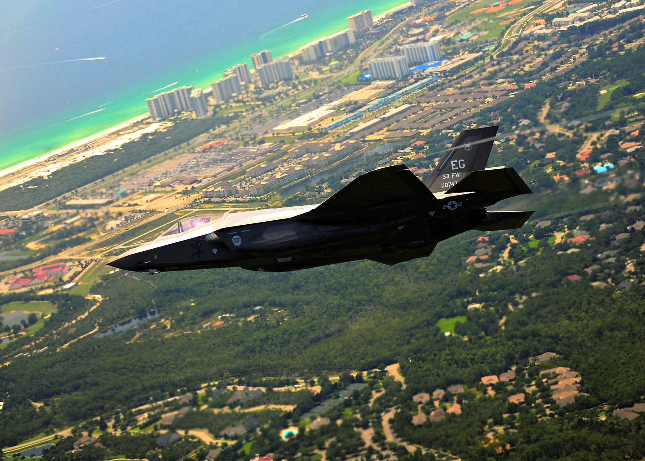 First Lockheed Martin F-35A Lightning II 08-0747 Arrives at Eglin AFB Florida 14 July 2011